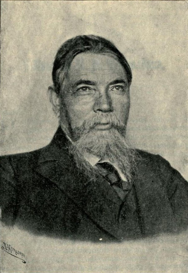 The last photo of Nikolai Chukmaldin taken by his daughter Nadezhda (1884-?). From: Nikolai Chukmaldin. Zapiski o moey zhizni. Moscow, 1902.